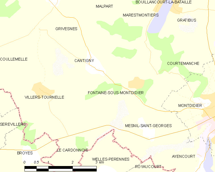 Map of French municipality Fontaine-sous-Montdidier